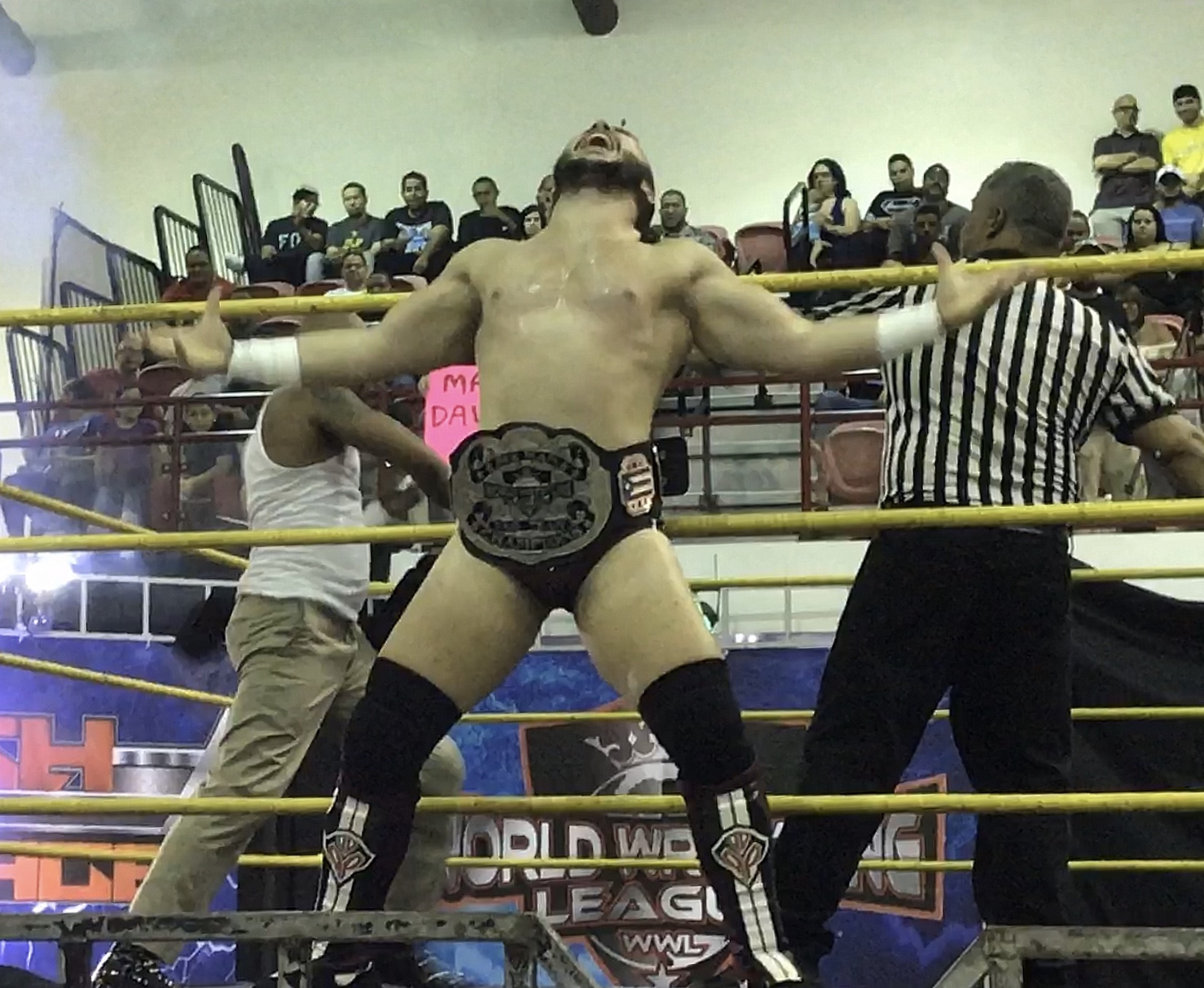 Profesional wrestler Mark Davidson (Kevin Serrano) as part of the WWL World Trios Champions.